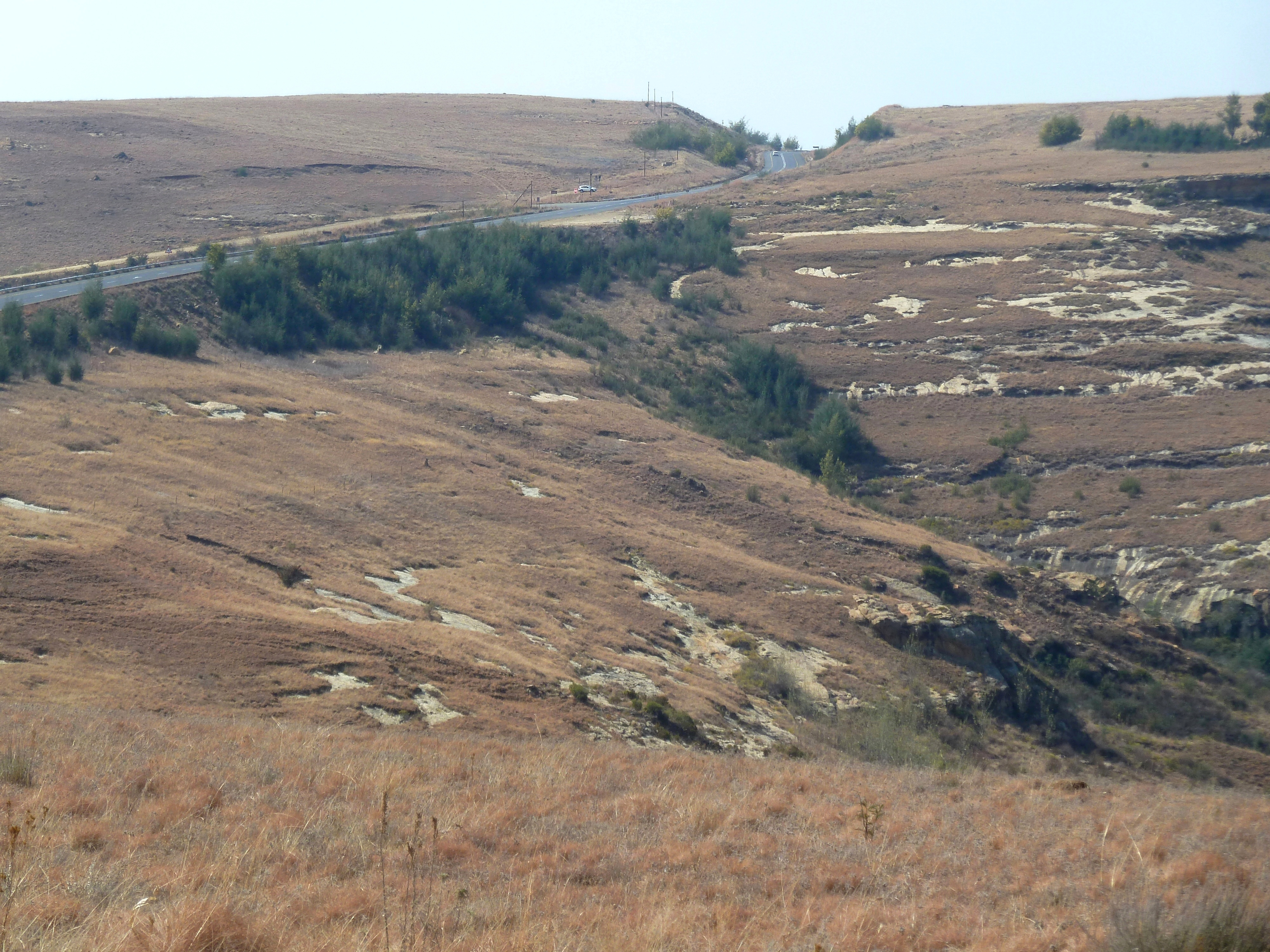 Surrender Hill, seen left (north) of the R711 route between Clarens and Fouriesburg. In the area behind the parked white car a large quantity of boer ammunition was destroyed.